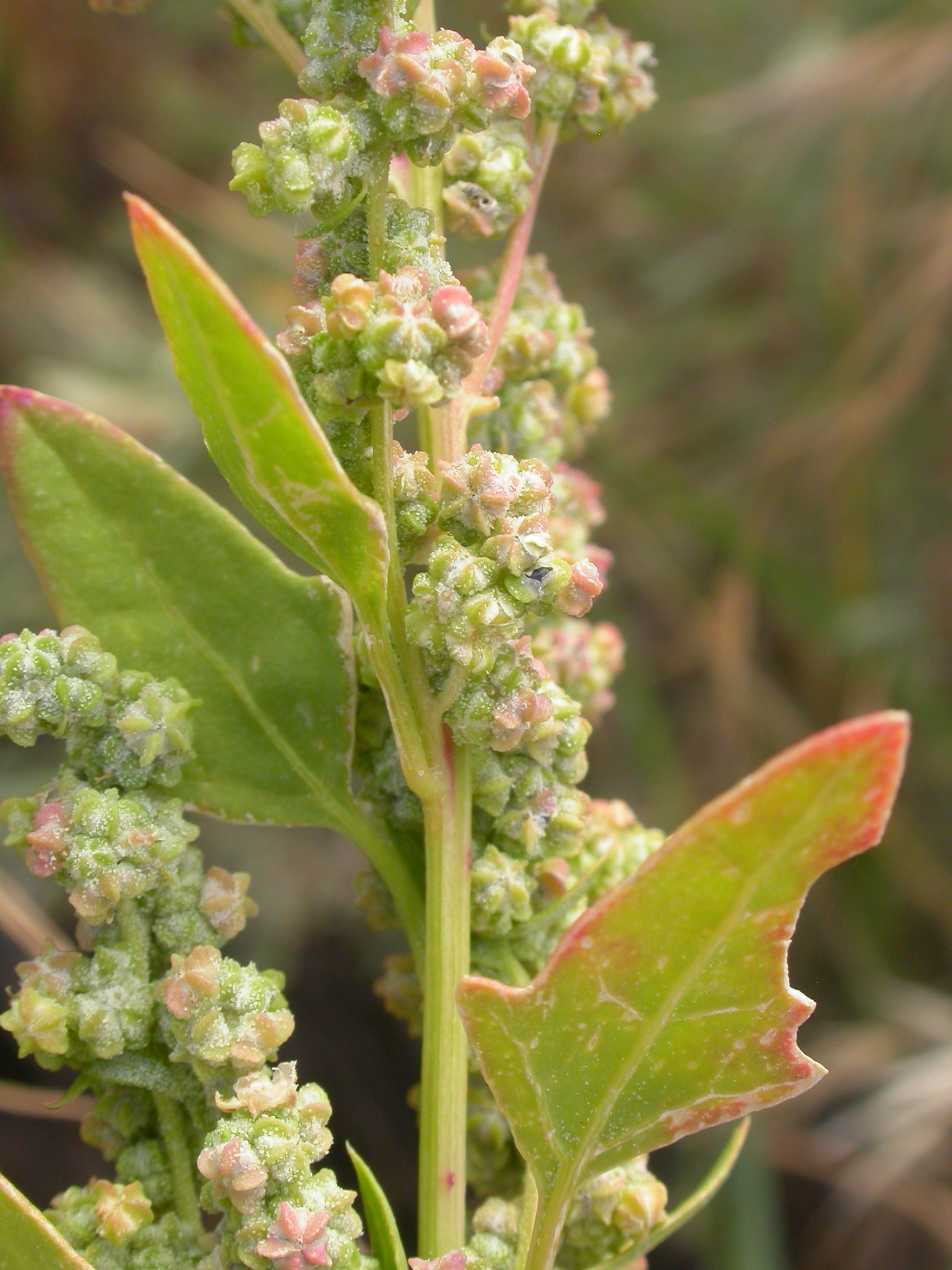 The very short curly white (mealy) hairs covering the leaves and inflorescences are characteristic of the family Chenopodiaceae.